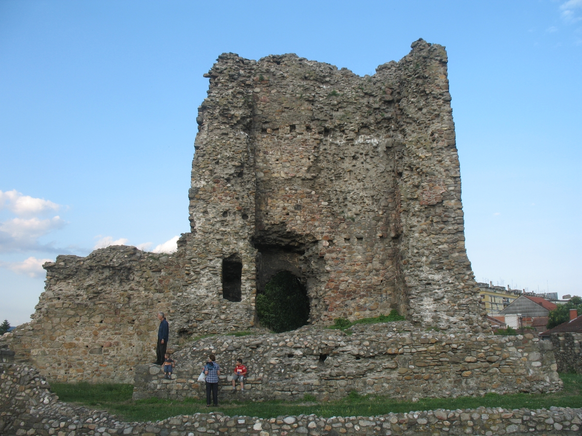 Remains Donjon Tower in Kruševac fortress in Kruševac, Serbia.